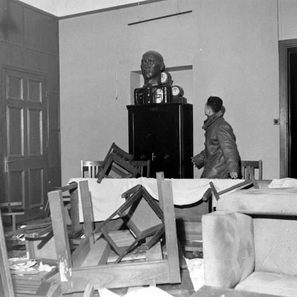 Shanghai Taxi Dancers Riots in 1948